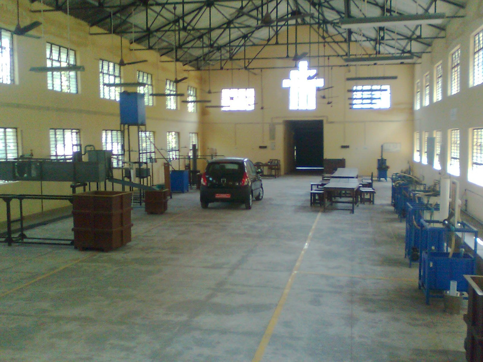 The Inside View of Fluid Mechanics Laboratory under the Mechanical Engineering Department.